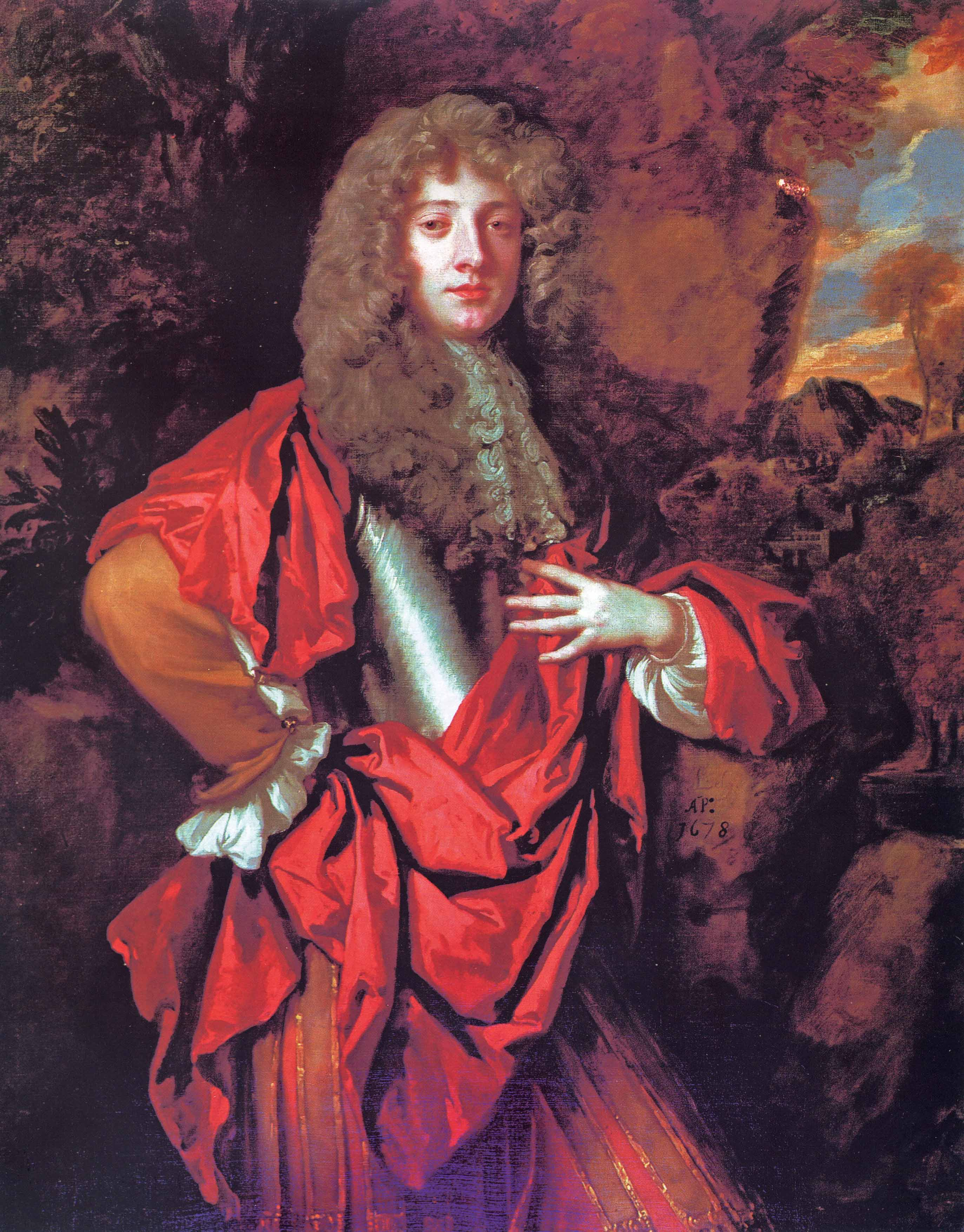 Painting of Sir Thomas Grosvenor, 3rd Baronet